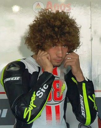 Marco Simoncelli 2009 Valencia ( Test Session after Grand Prix )